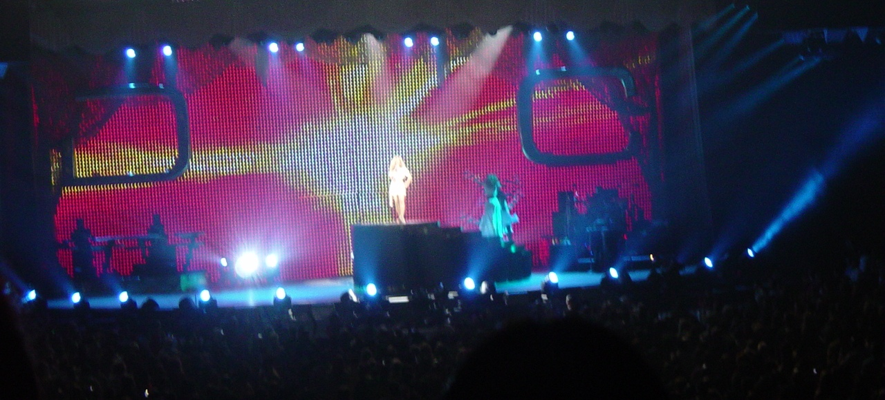 Beyoncé Knowles performing "Baby Boy" during the Destiny Fulfilled ... And Lovin' It world concert tour.